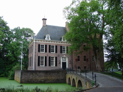 Castle Kinkelenburg frontside